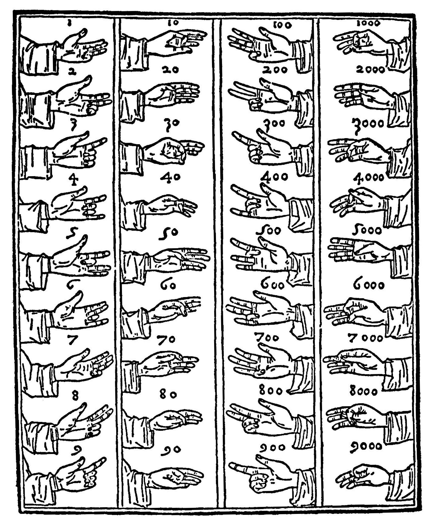 Figure publised 1727 in ""Theatrum arithmetico geometricum" by Jacob Leupold (1674–1727). Represent counting with fingers described by Bede Venerabilis (died 735).